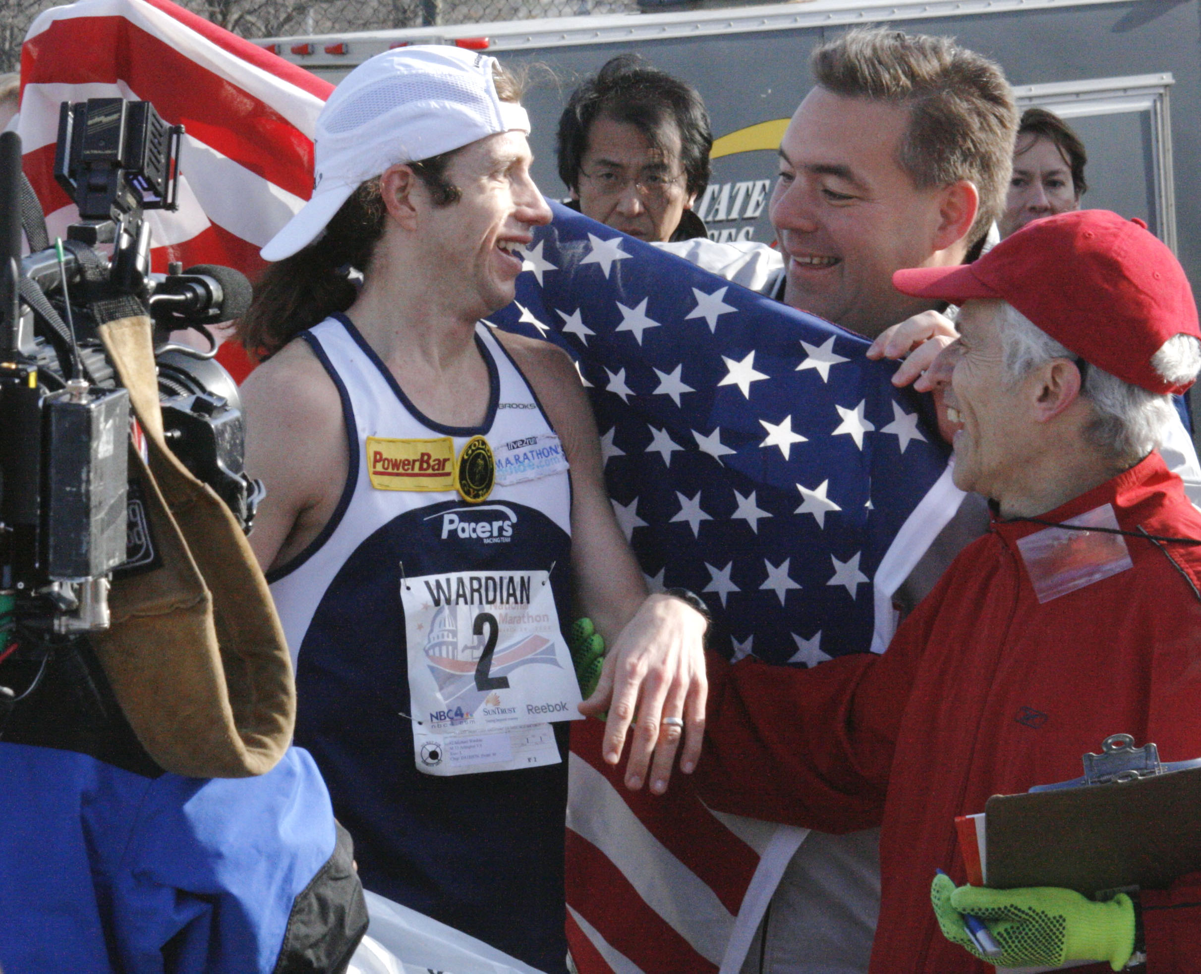 Michael Wardian, 3 time winner of National Marathon